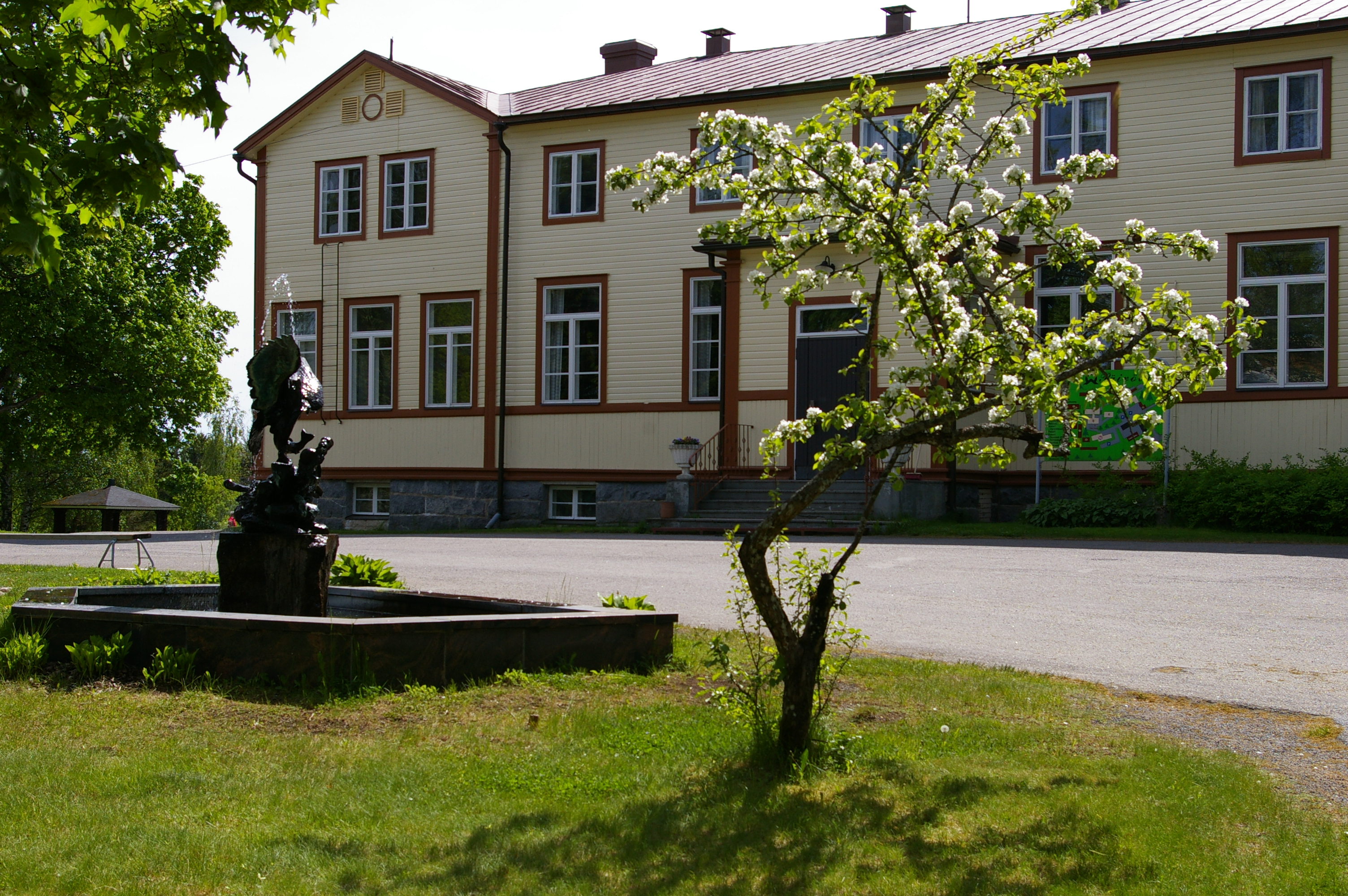 The old main building of Päivölä folk school in the summer.